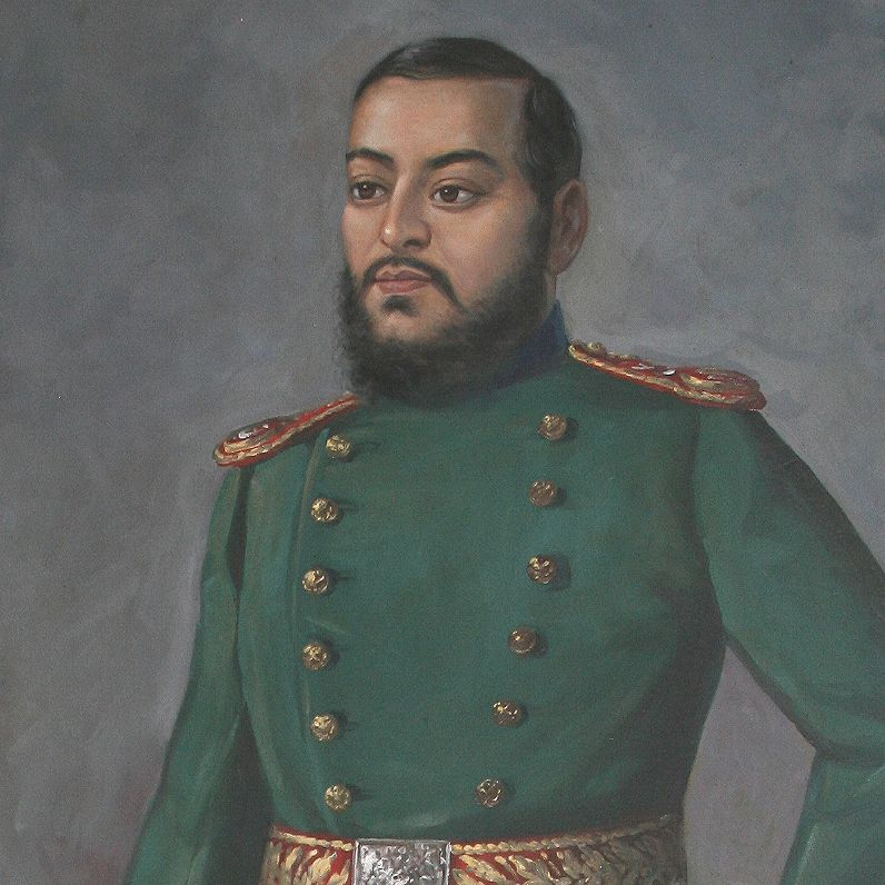 Trailokya Bikram Shah (1848-1878).